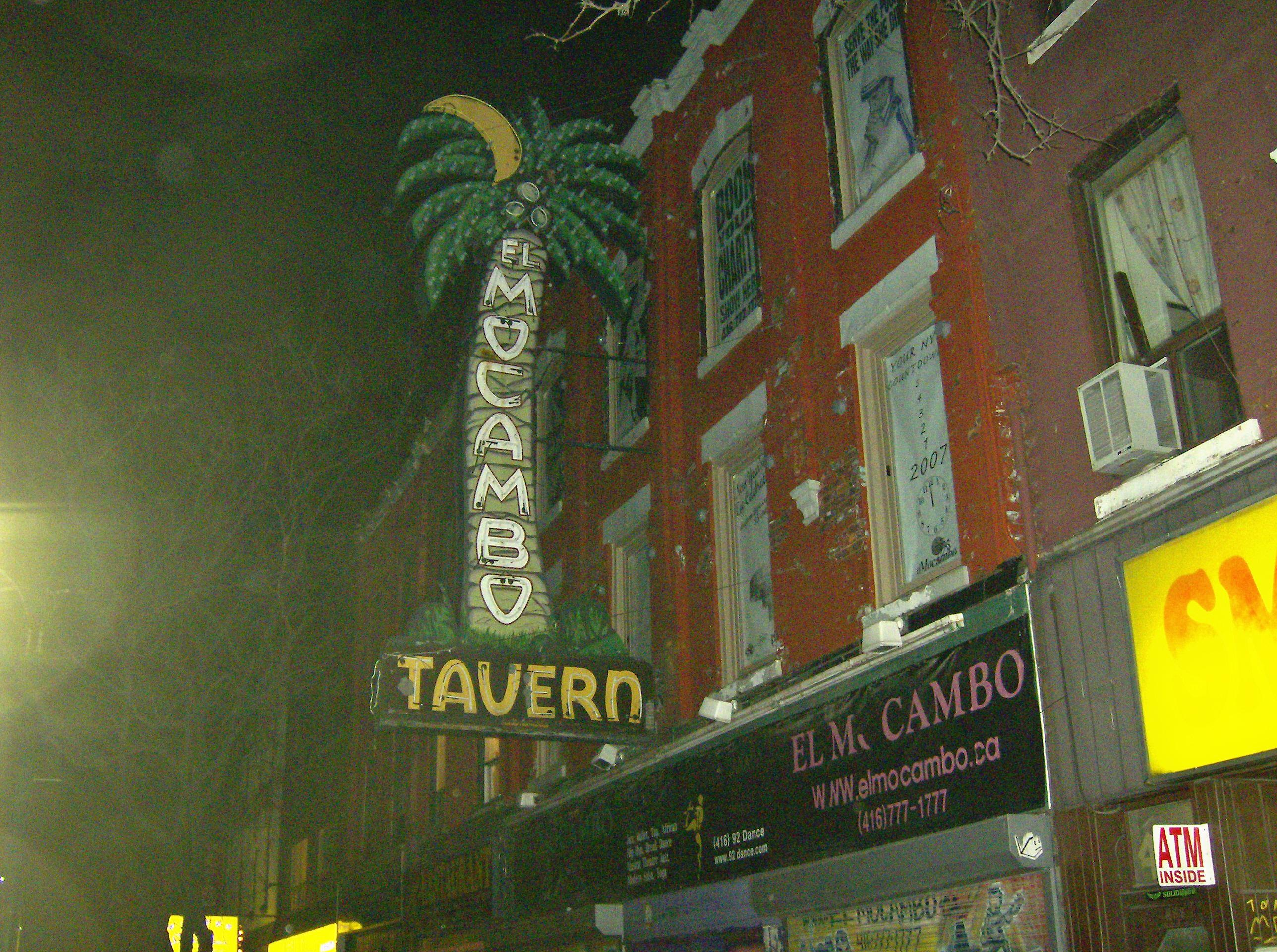 my photo